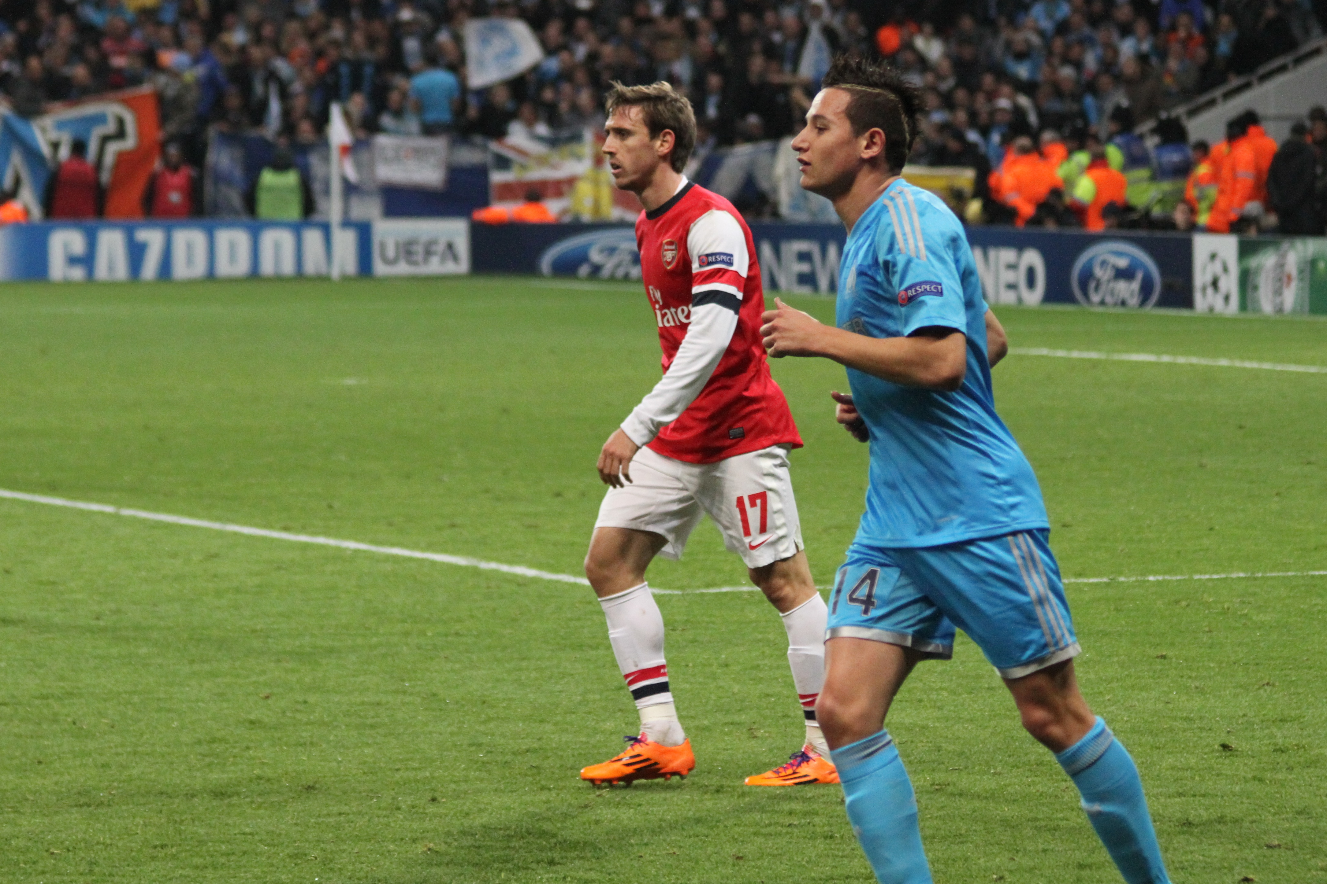 Nacho Monreal and Florian Thauvin